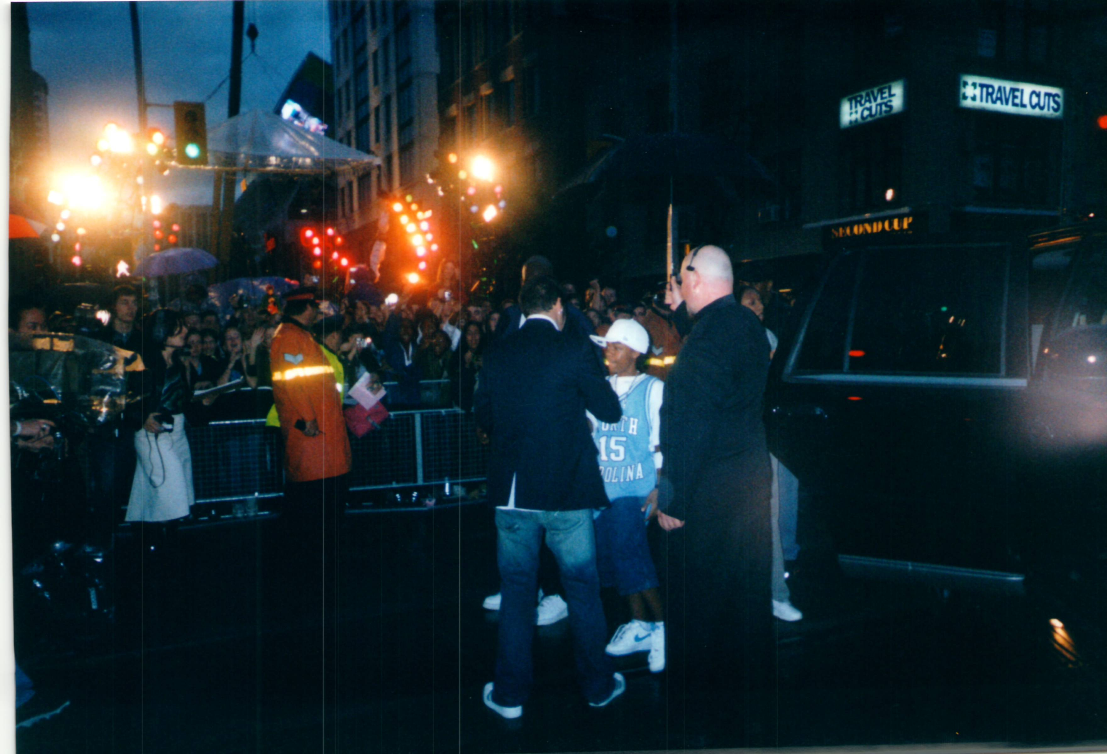 Bow Wow at MuchMusic Video Awards 2002.